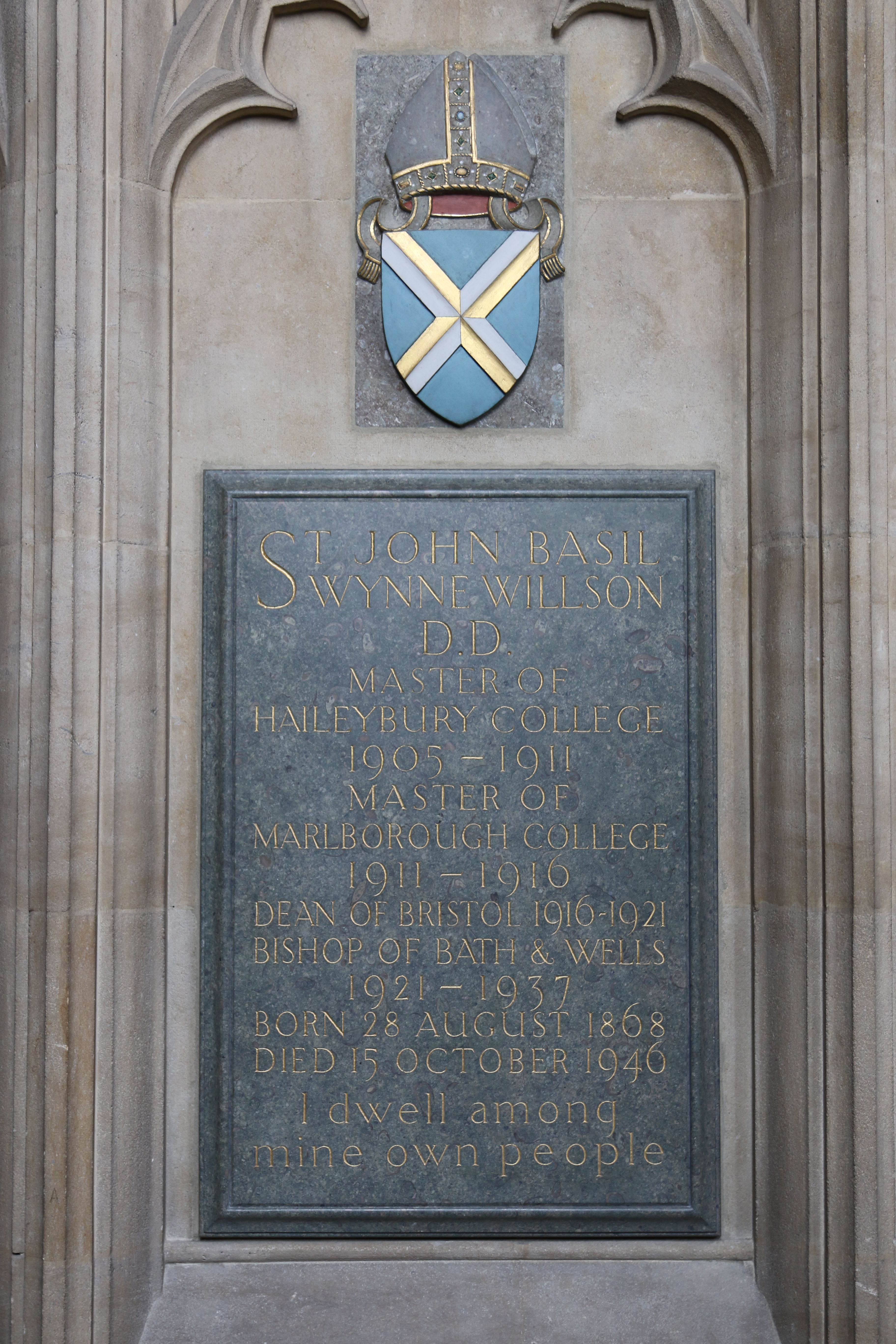 St John Basil Wynne Willson DD Master of Haileybury College 1905 - 1911 Master of Marlborough College 1911 - 1916 Dean of Bristol 1916 - 1921 Bishop of Bath and Wells 1921 - 1937 Born 28 August 1868 Died 15 October 1946